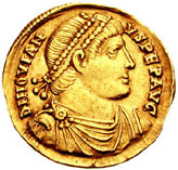 JOVIAN. 363-364 AD. AV Solidus (4.41 gm). Antioch mint. DL IOVIAN-US P F P AUG, Pearl-diademed, draped and cuirassed bust right SECURITA-S REI PUBLICAE, Roma and Constantinopolis enthroned, supporting between them shield inscribed VOT/V/MVL/X in four lines; ANTE. RIC VIII 223; Depeyrot 18/2. VF, traces of prior mounting on edge. From the Garth R. Drewry Collection.